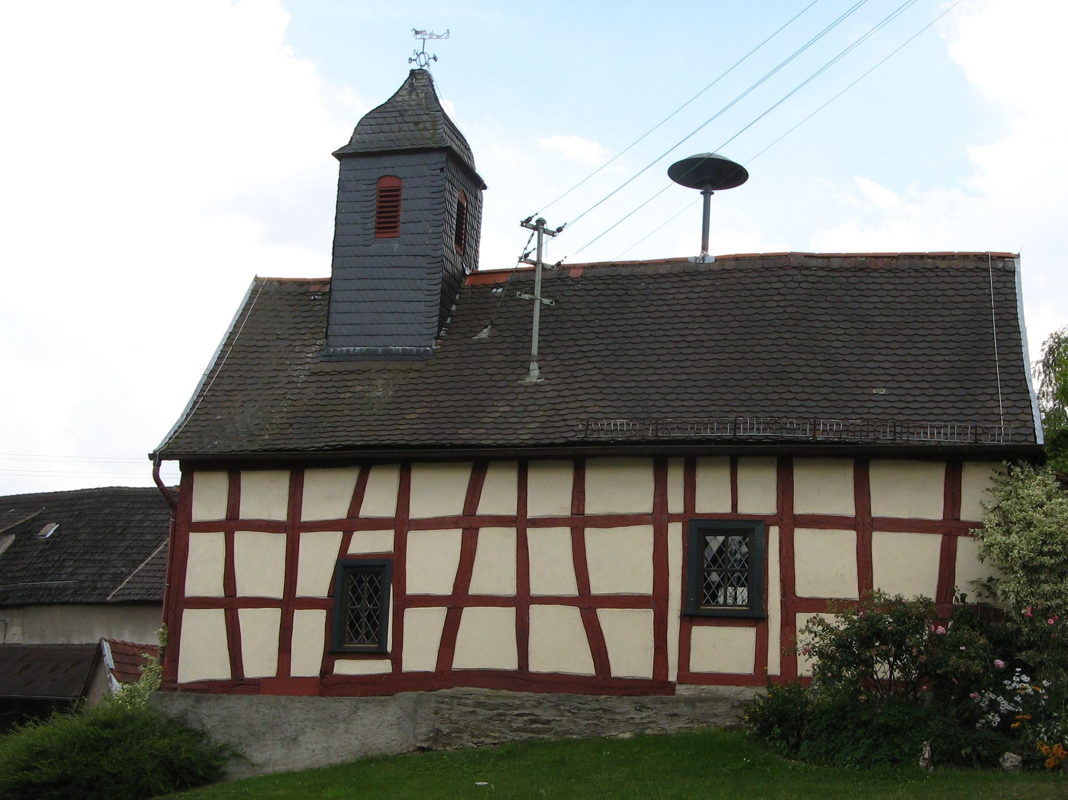 Church in Ehrenbach, Idstein, Hesse, Germany